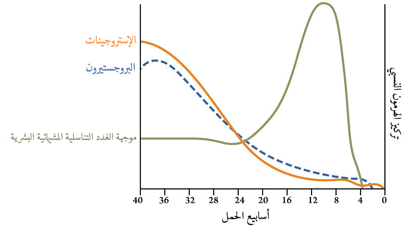 The hormones initiating labour.